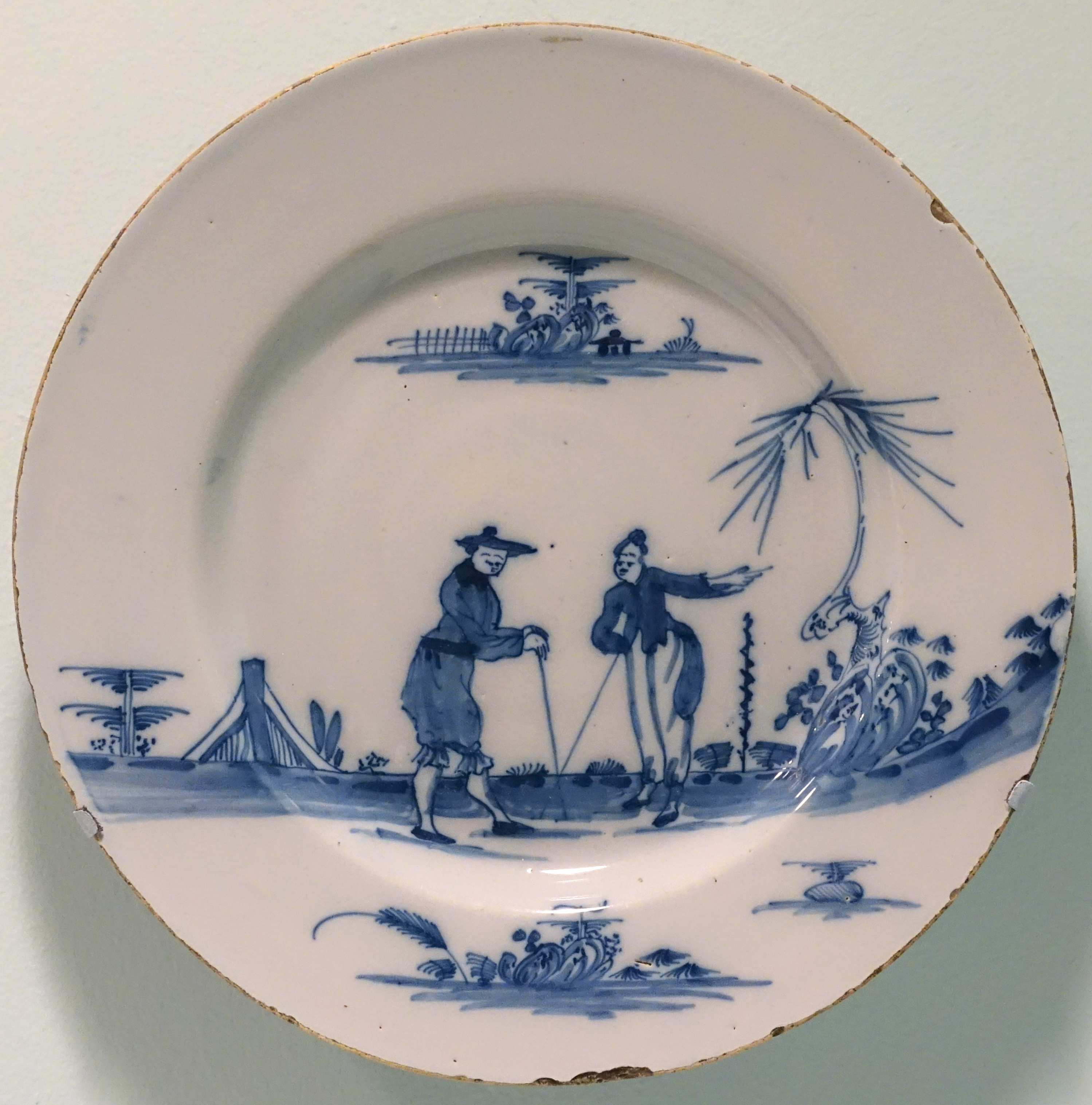 Exhibit in the Krannert Art Museum, University of Illinois at Urbana-Champaign - Urbana-Champaign, Illinois, USA. This work is old enough so that it is in the public domain.